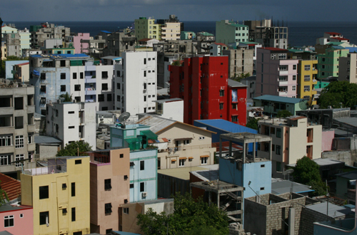 photo taken by uploader (a_robustus)